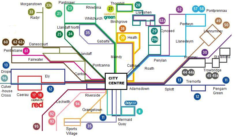 A basic map of Cardiff Bus' most frequent services in Cardiff. N.B: Route numbers don't indicate the terminus, just the route number.